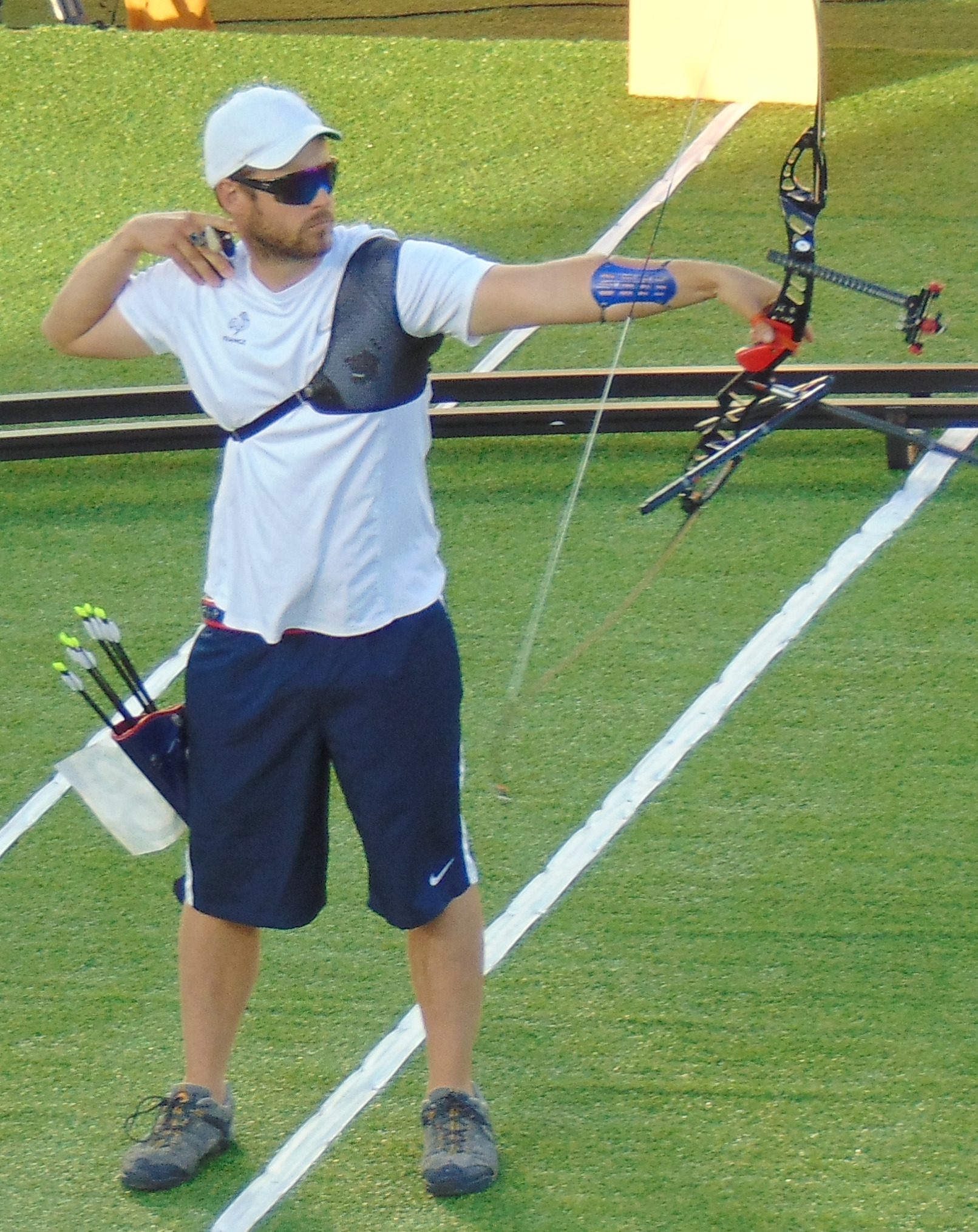 Rio 2016 - Men's archery finals